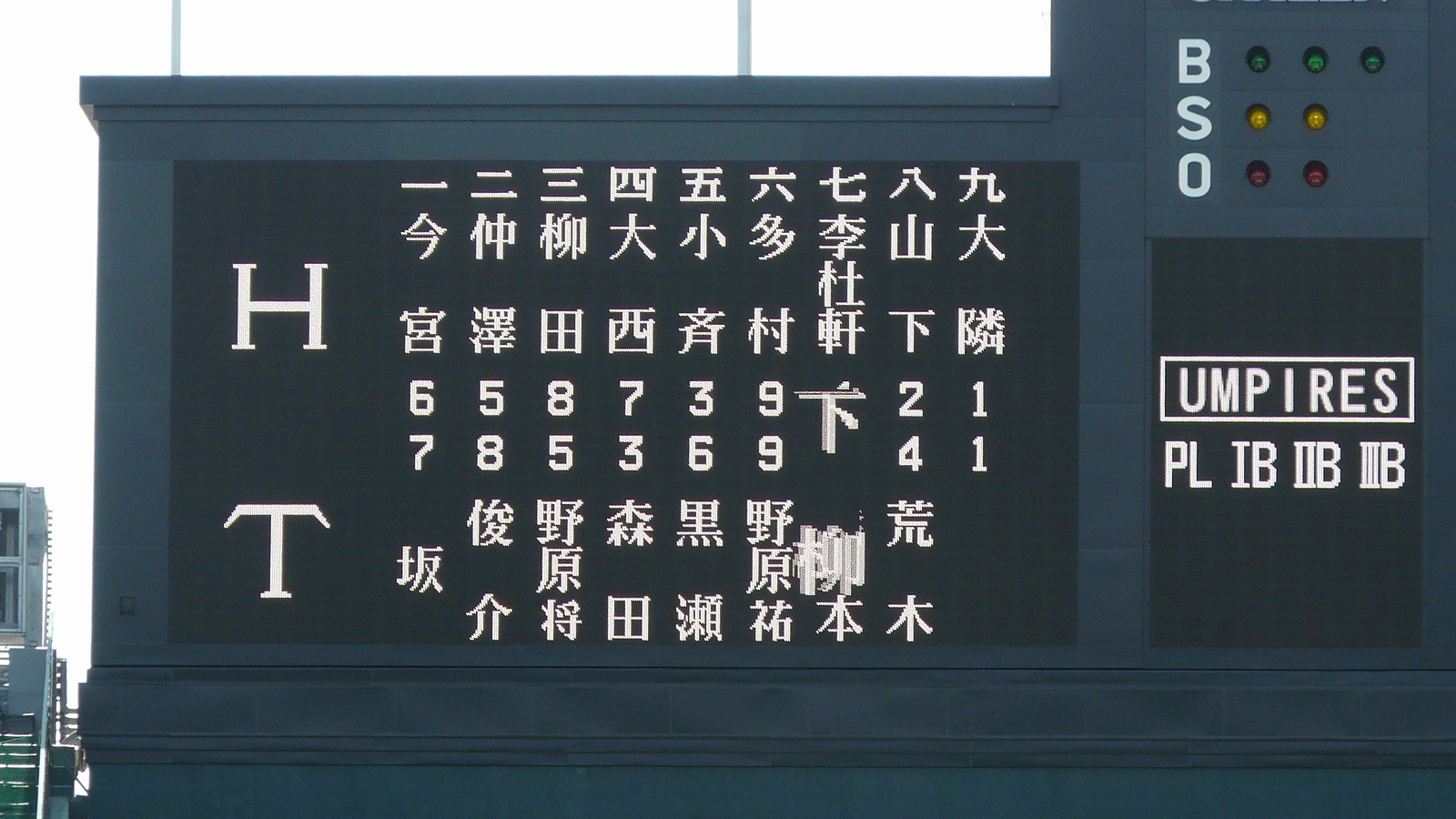 Hanshin_Koshien_Stadium6